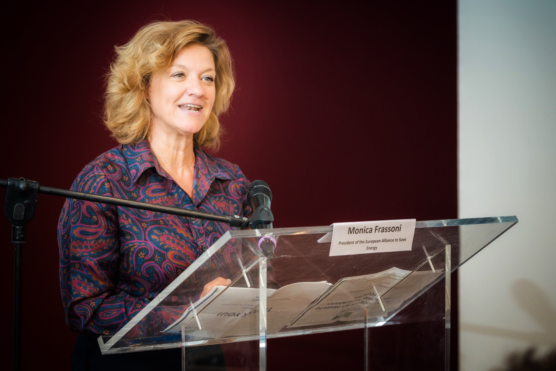 Monica Frassoni